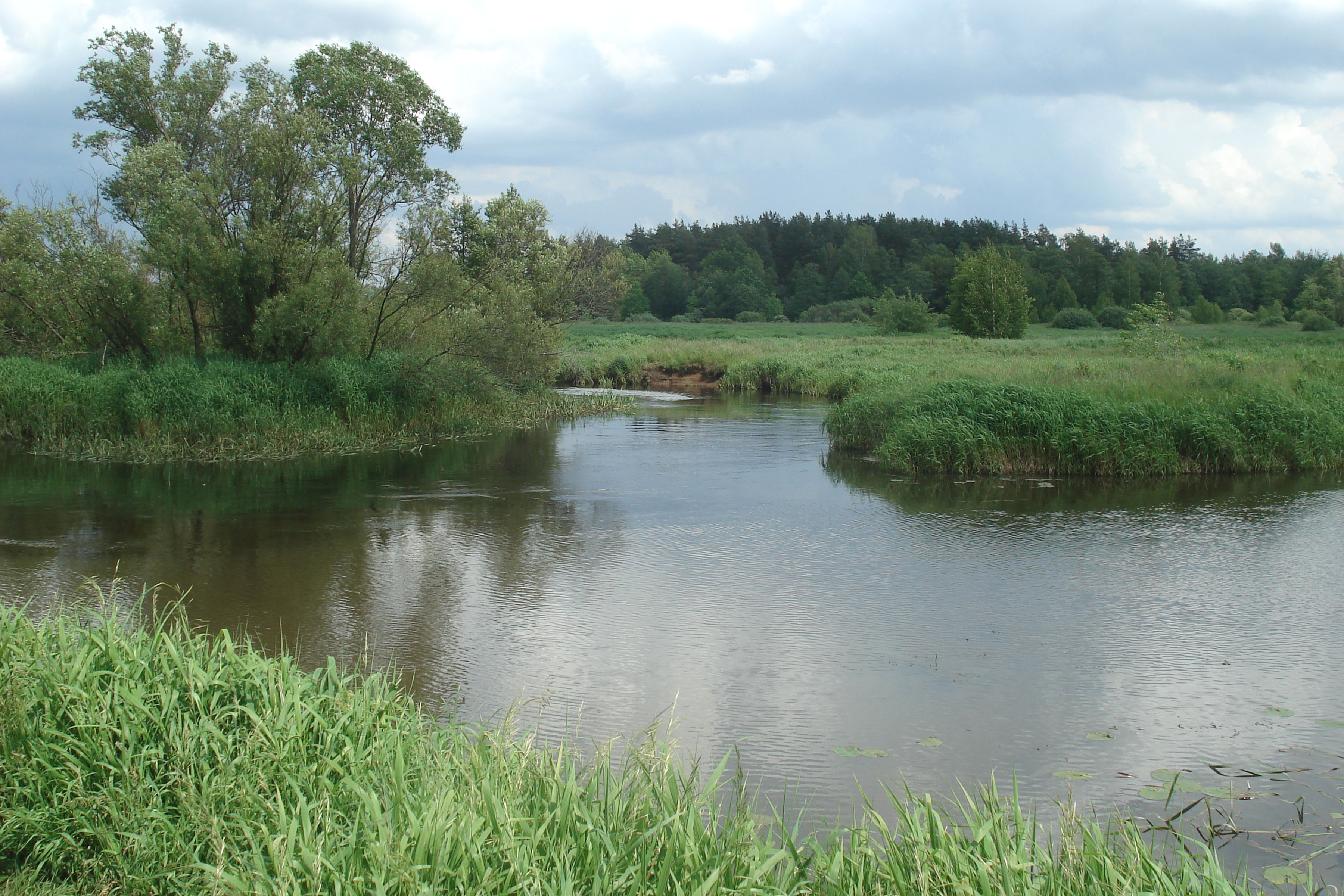 Place of a confluence of the river Guslitsa in the river Nerskaya. Near the village Khoteichi, Moscow region.